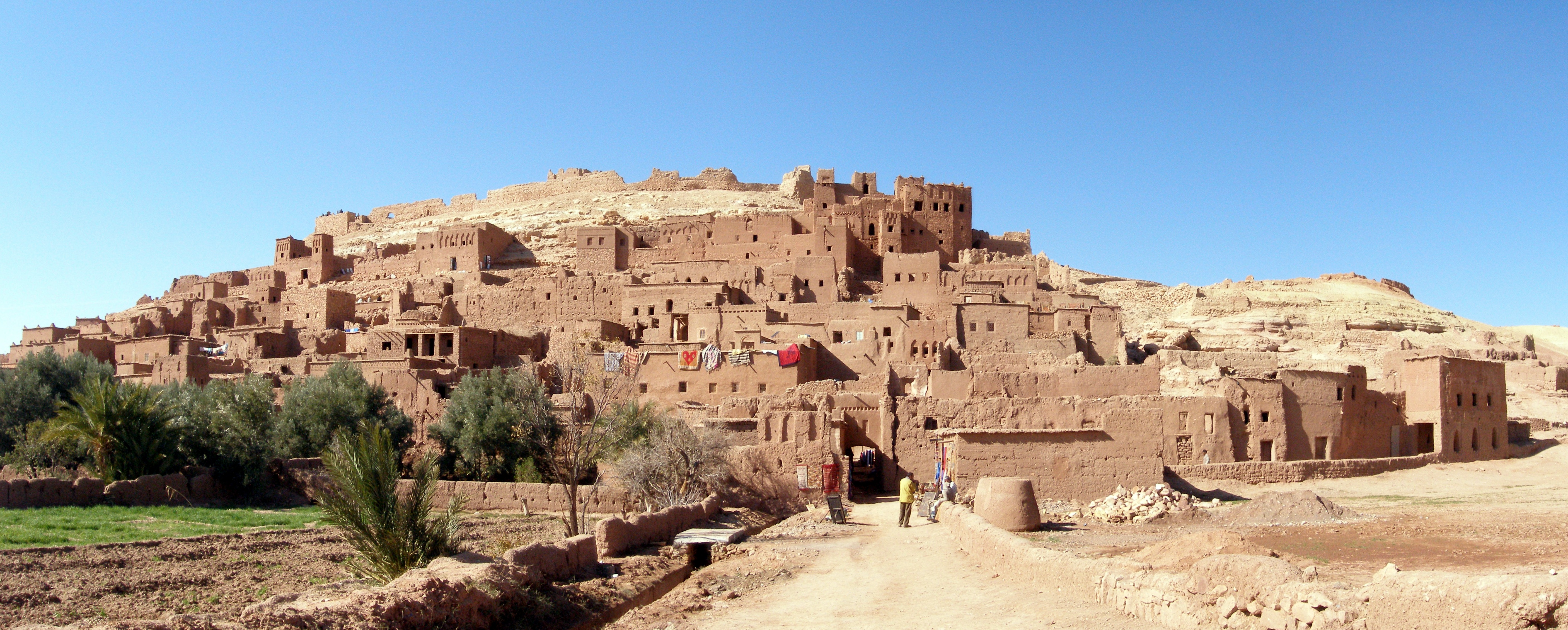 Panorama of Aït Benhaddou ksar, Morocco. (3 pictures, stitched with AutoStitch)